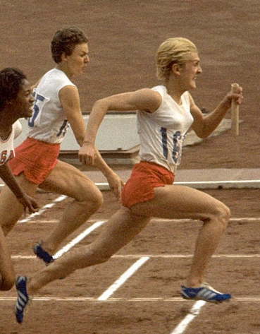 Halina Górecka and Ewa Kłobukowska (right) in the Women's 4x100m Relay Final during Tokyo Olympic at the National Stadium on October 21, 1964 in Tokyo, Japan.